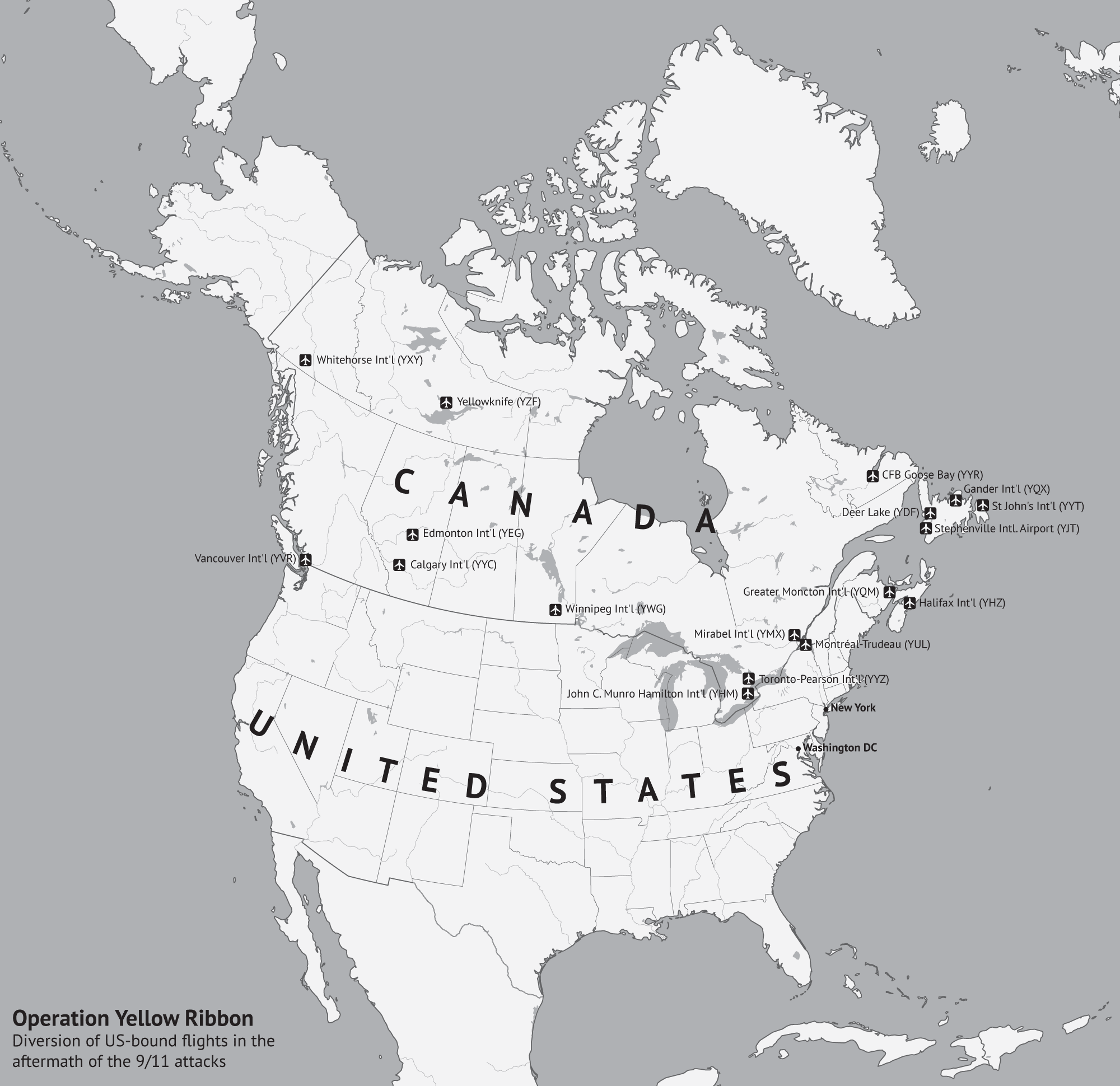 Map showing airports where US-bound flights diverted to on September 11th 2001